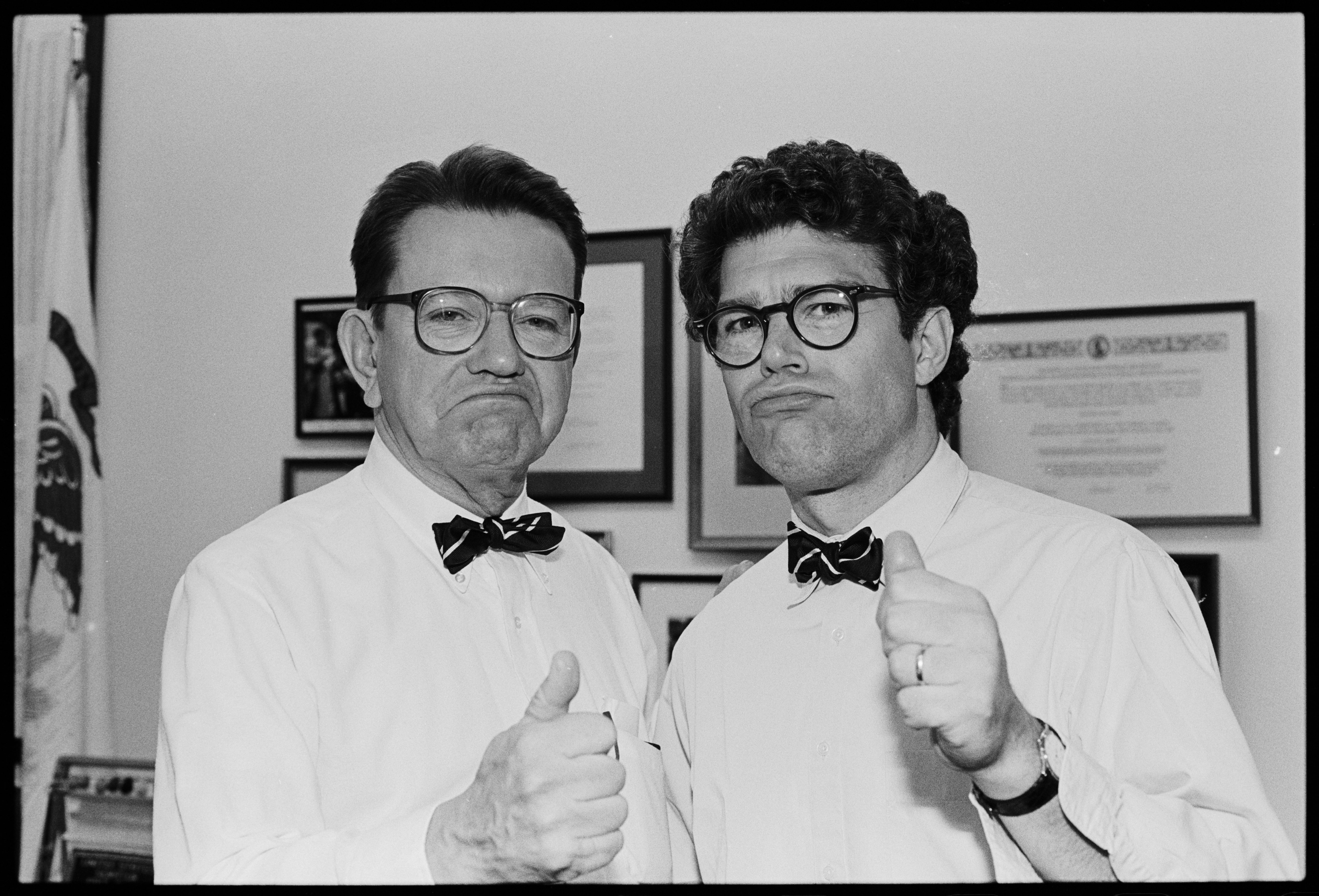 Senator Paul Simon and comedian Al Franken rehearsing for a Citizen Action dinner honoring Simon at the Mayflower Hotel, Washington, D.C.